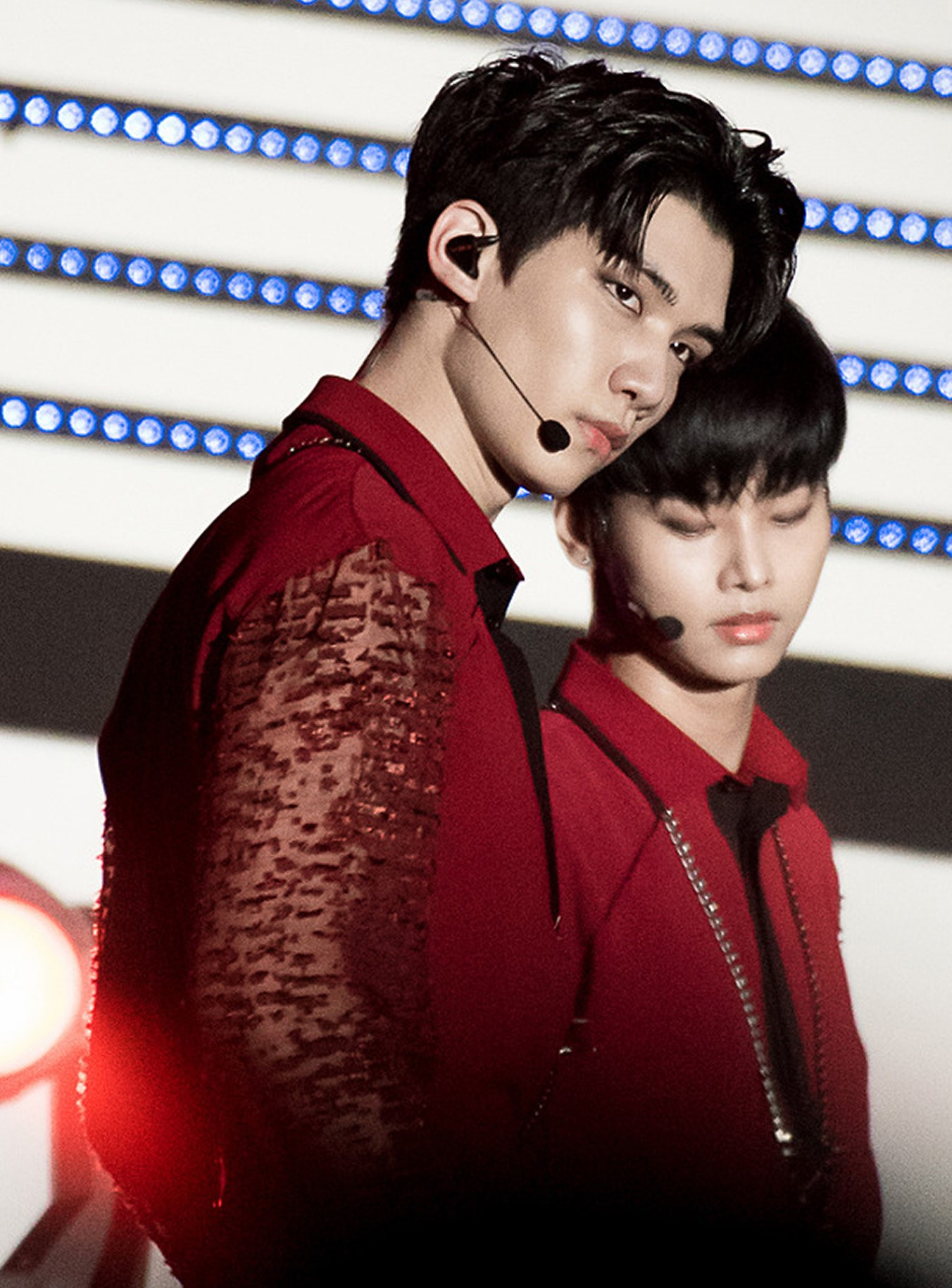 Hyuk at WFMF concert on September 11, 2016.